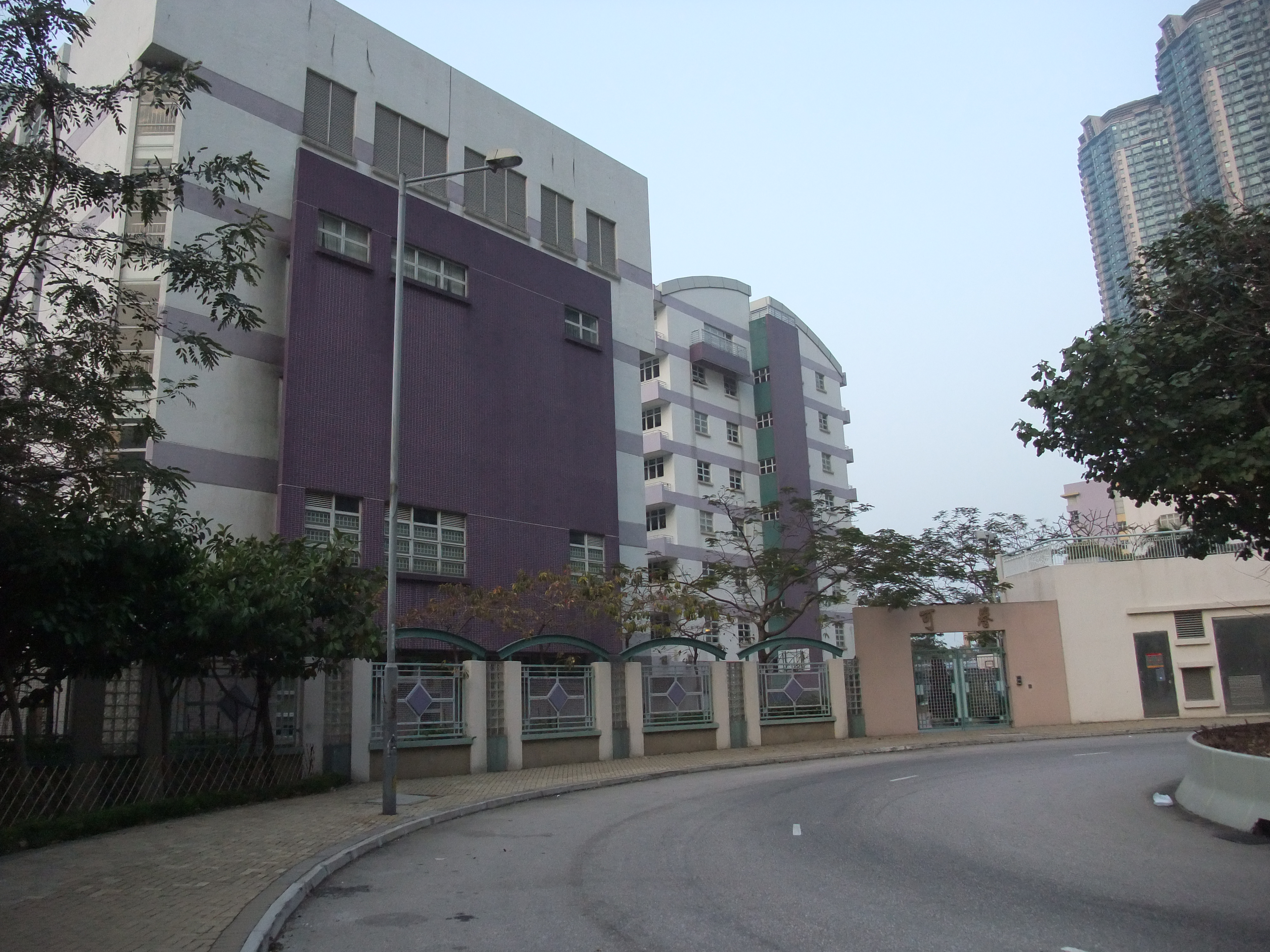 Ho Yu College and Primary School (Sponsored by Sik Sik Yuen) in Tung Chung, Hong Kong.